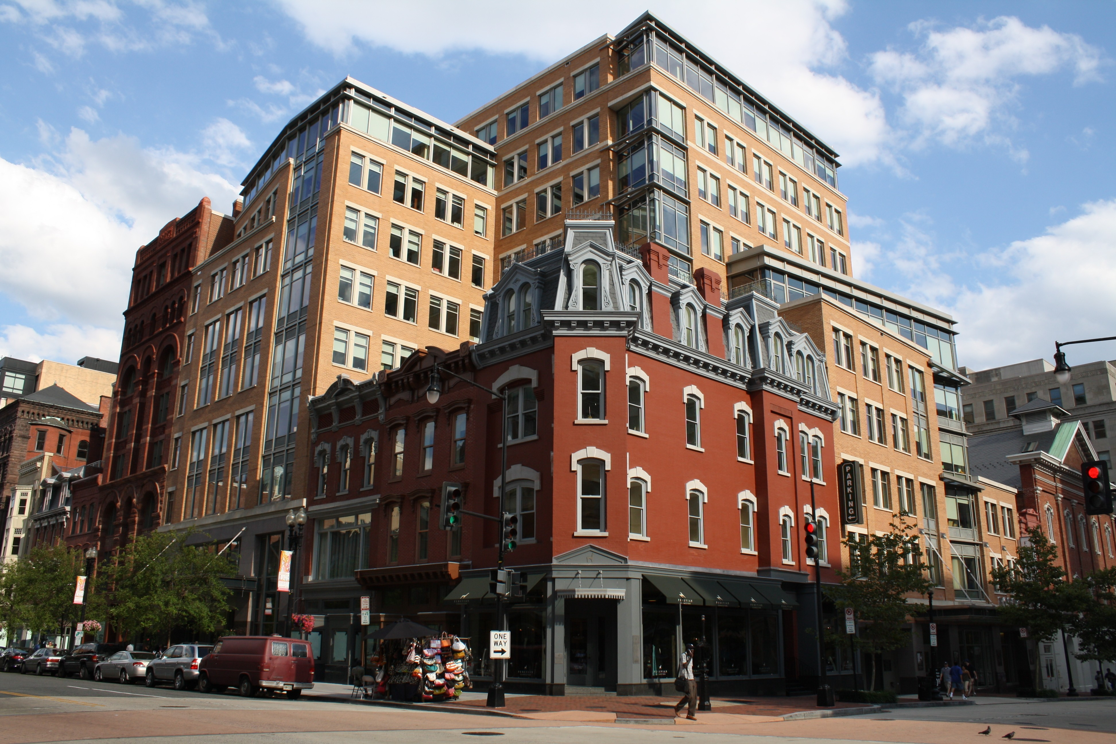 The Atlantic Building Complex is located at 10th and F Streets in the Penn Quarter, NW Washington DC. This photo was taken on Saturday afternoon, 18 July 2009 by Elvert Xavier Barnes Photography. View of Atlantic Building photos by Elvert Barnes at